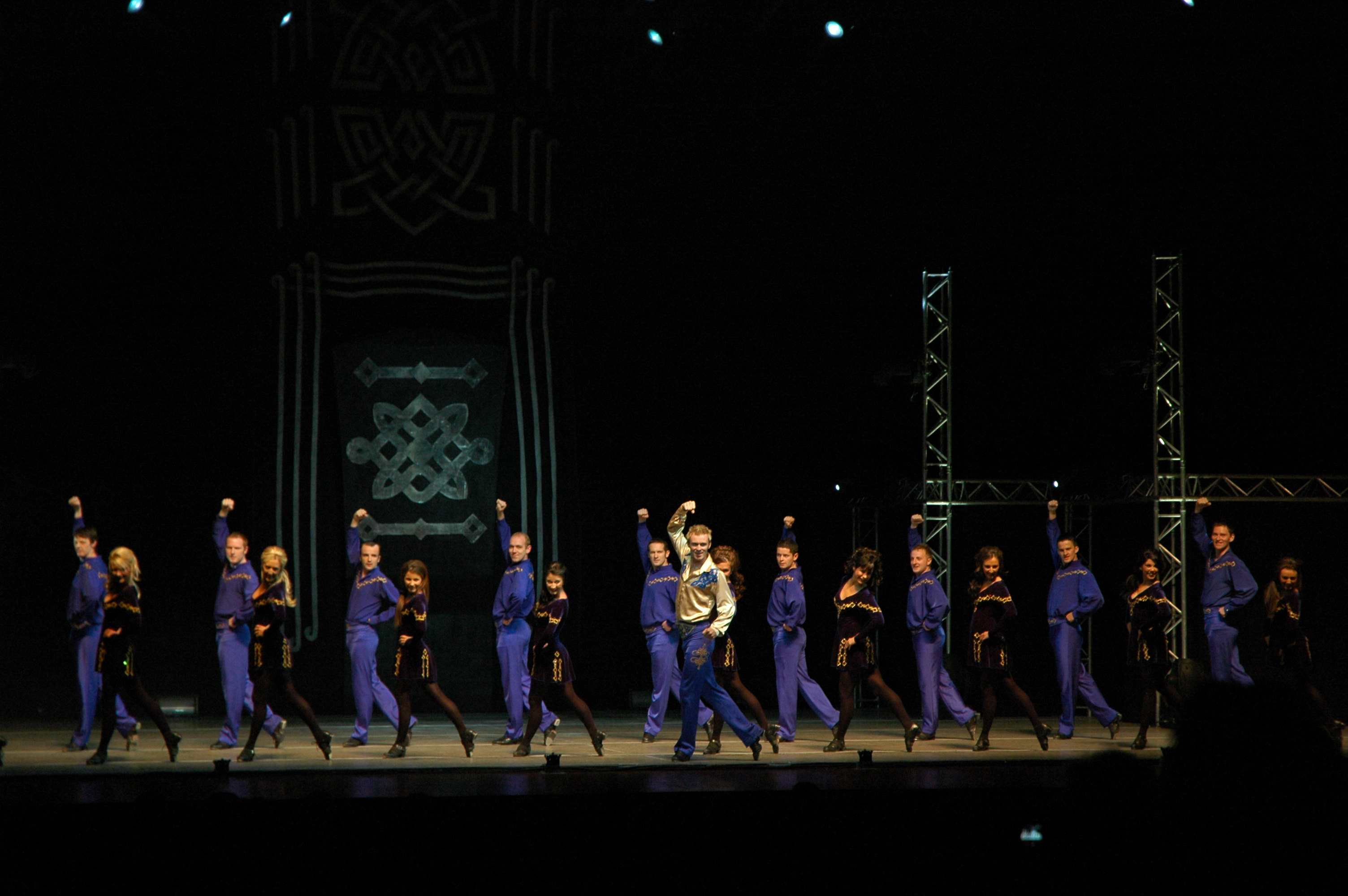 "Lord of the Dance" show of Michael Flatley, part 1 "Cry Of The Celts" with "Lord of the Dance" and "The Clan".